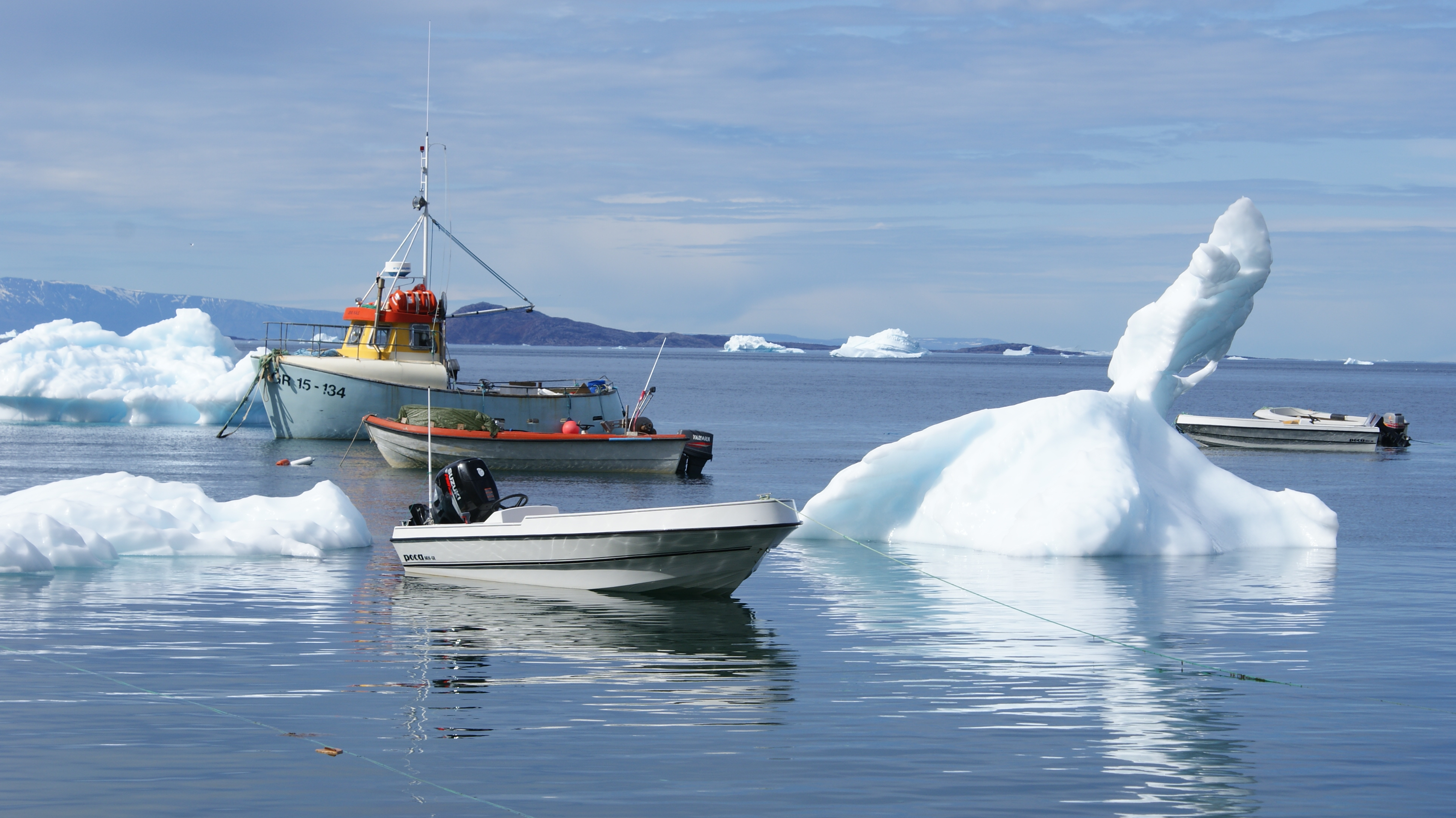 Harbour in Ukkusissat, a settlement in the Uummannaq Fjord System, northwestern Greenland. Boats amongst funky growlers.